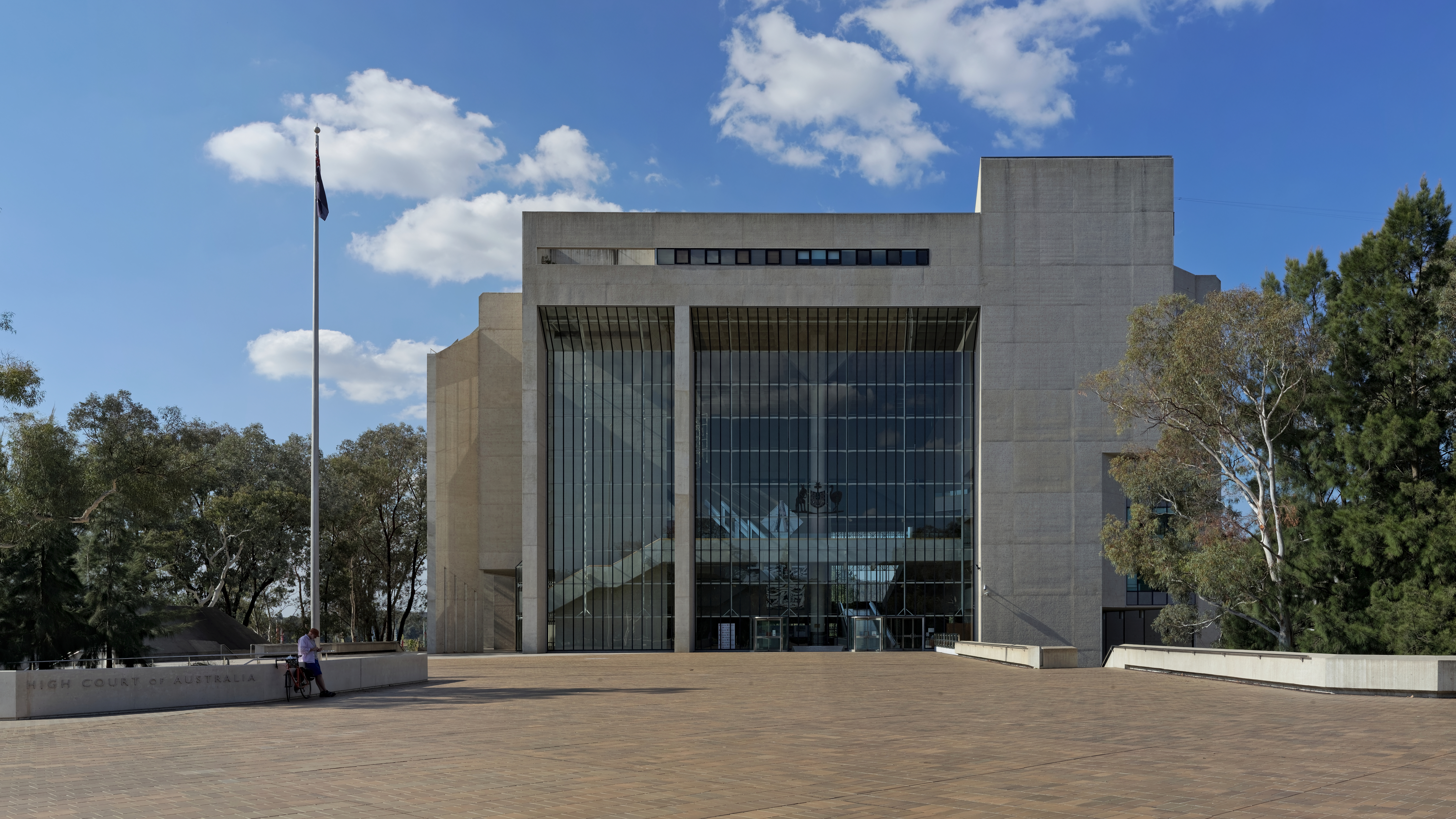 The High Court of Australia, in Canberra. Stitched with Hugin, perspective corrected in Darktable.